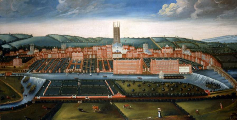 A Prospec of Derby